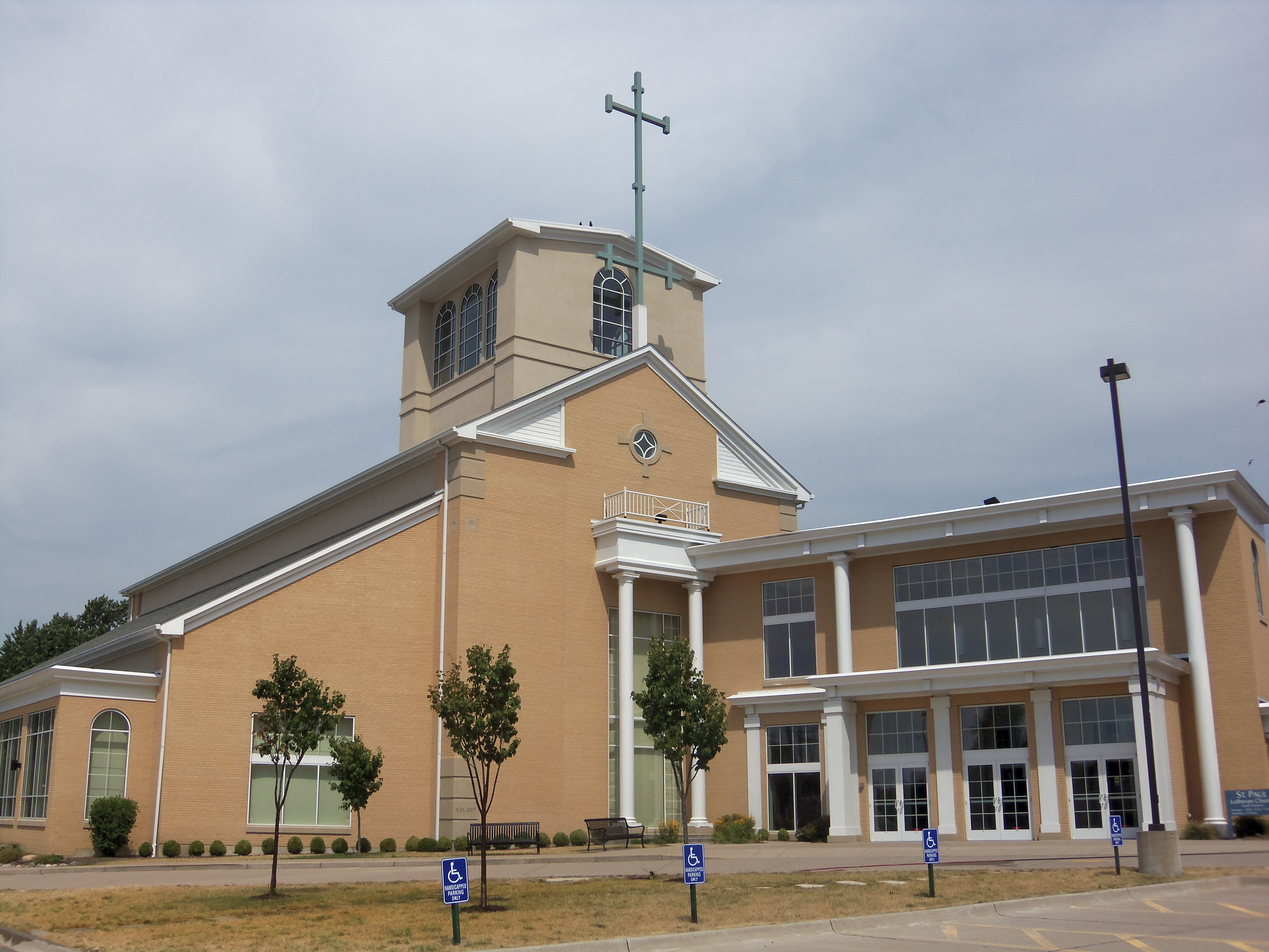 St. Paul Lutheran Church in Davenport, Iowa was built in 2007.